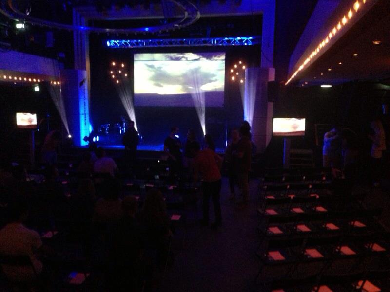 Hall of the Dutch Hillsong Church in Amsterdam. Panama, Oostelijke Handelskade, Amsterdam, The Netherlands.